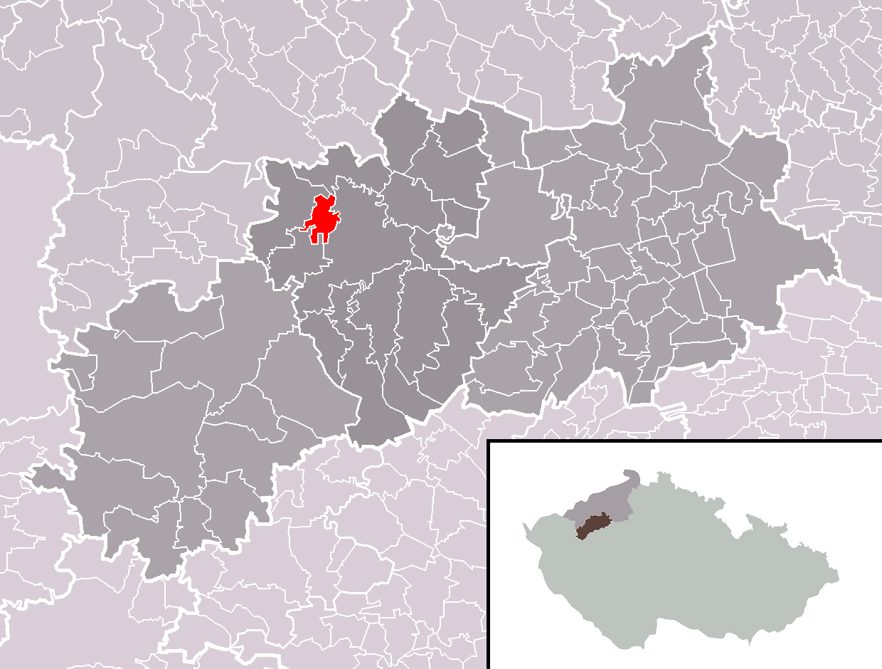 Location of Libočany municipality within Louny District and administrative area of Žatec as a Municipality with Extended Competence.